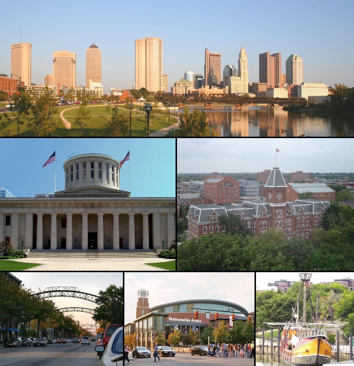 Montage of Columbus, Ohio images. From top to bottom left to right: Columbus skyline Ohio Statehouse Ohio State University Short North Nationwide Arena Replica of Santa Maria